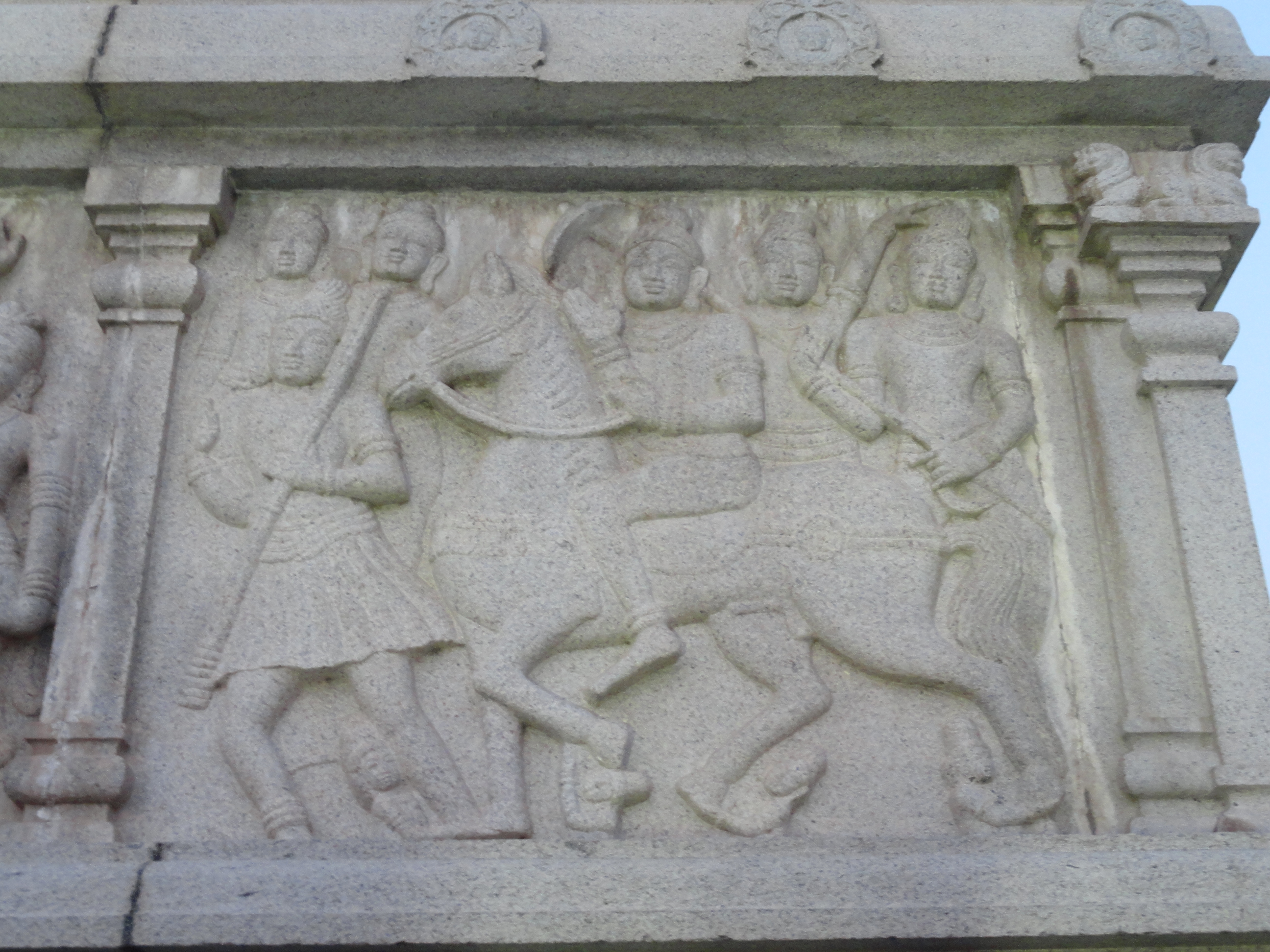 a sculpture on the basement of budda statue at hussainsagar,. hyd.